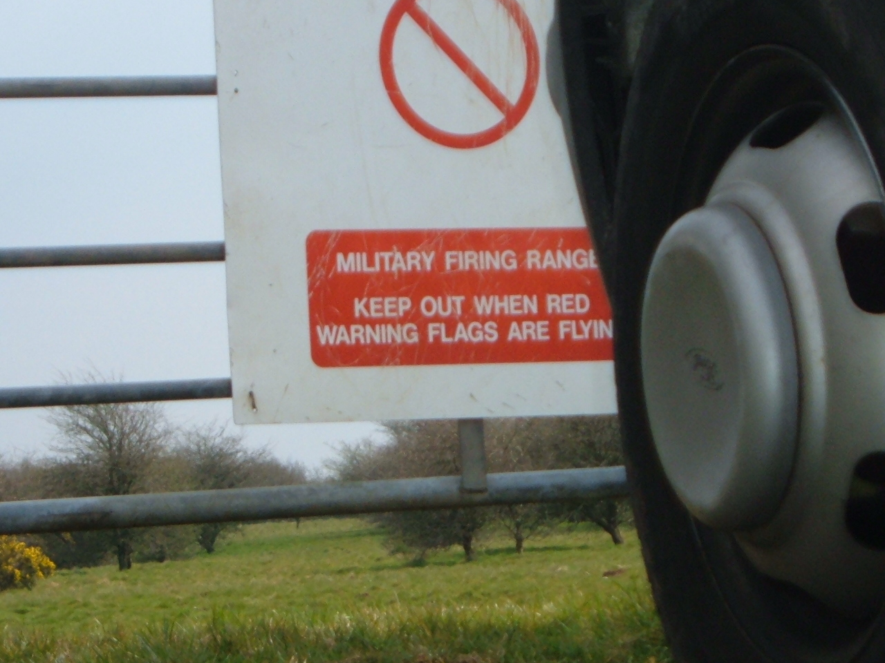 Gate from Haydon Grange leading onto Yoxter training area